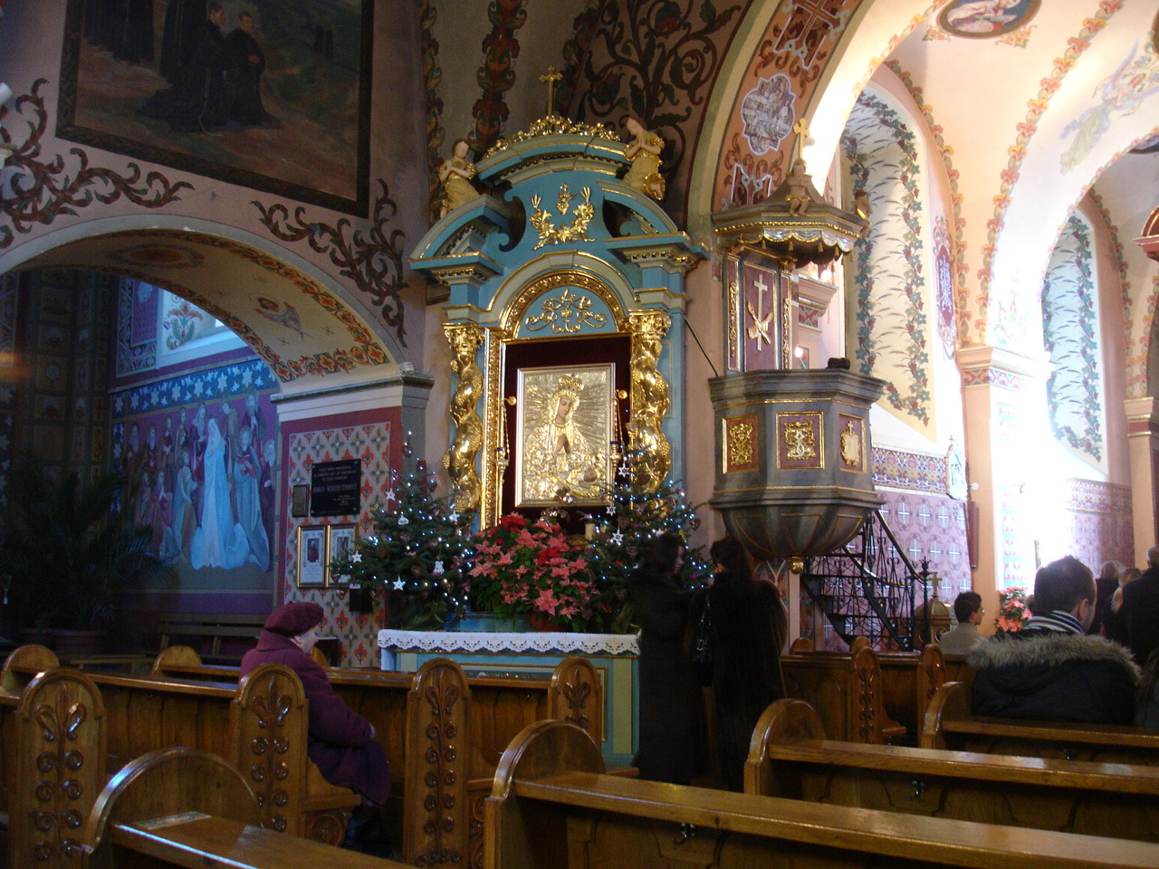 Interior of Franciscan Church in Sanok